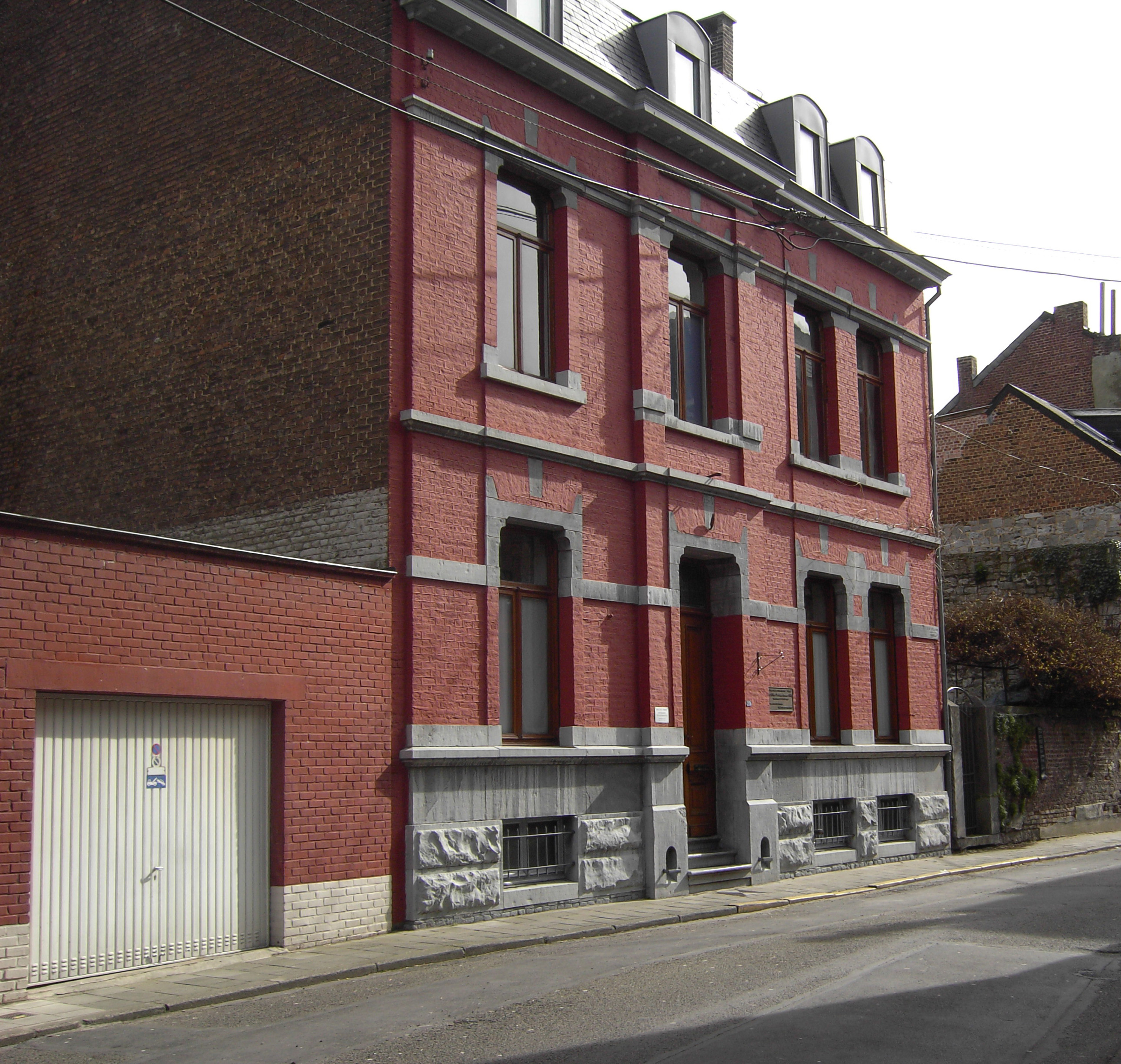 Façade of the house where Georges Pire was born (Dinant)